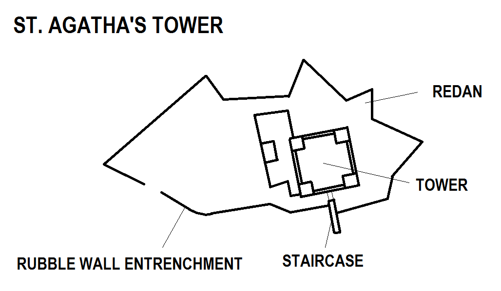 Map of St. Agatha's Tower and the surrounding entrenchments in Mellieħa, Malta